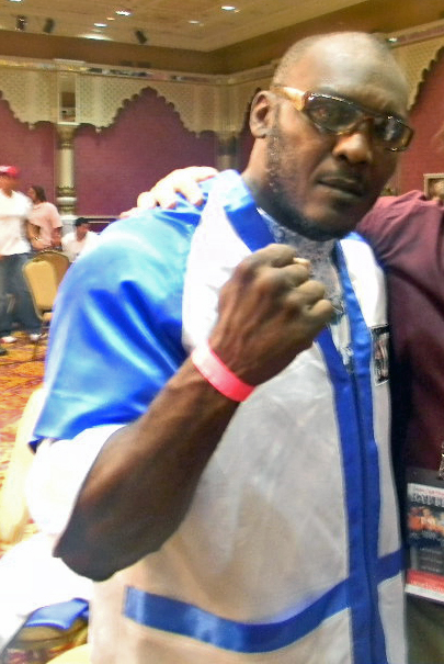 Former world heavyweight champion Bruce Seldon at the ringside of the Trump Taj Mahal Atlantic City on August 28, 2010, after his son Isiah's KO win.